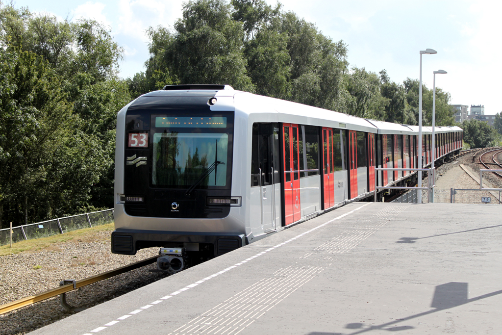 New metrotrain on a testdrive near station Verrijn Stuartweg.